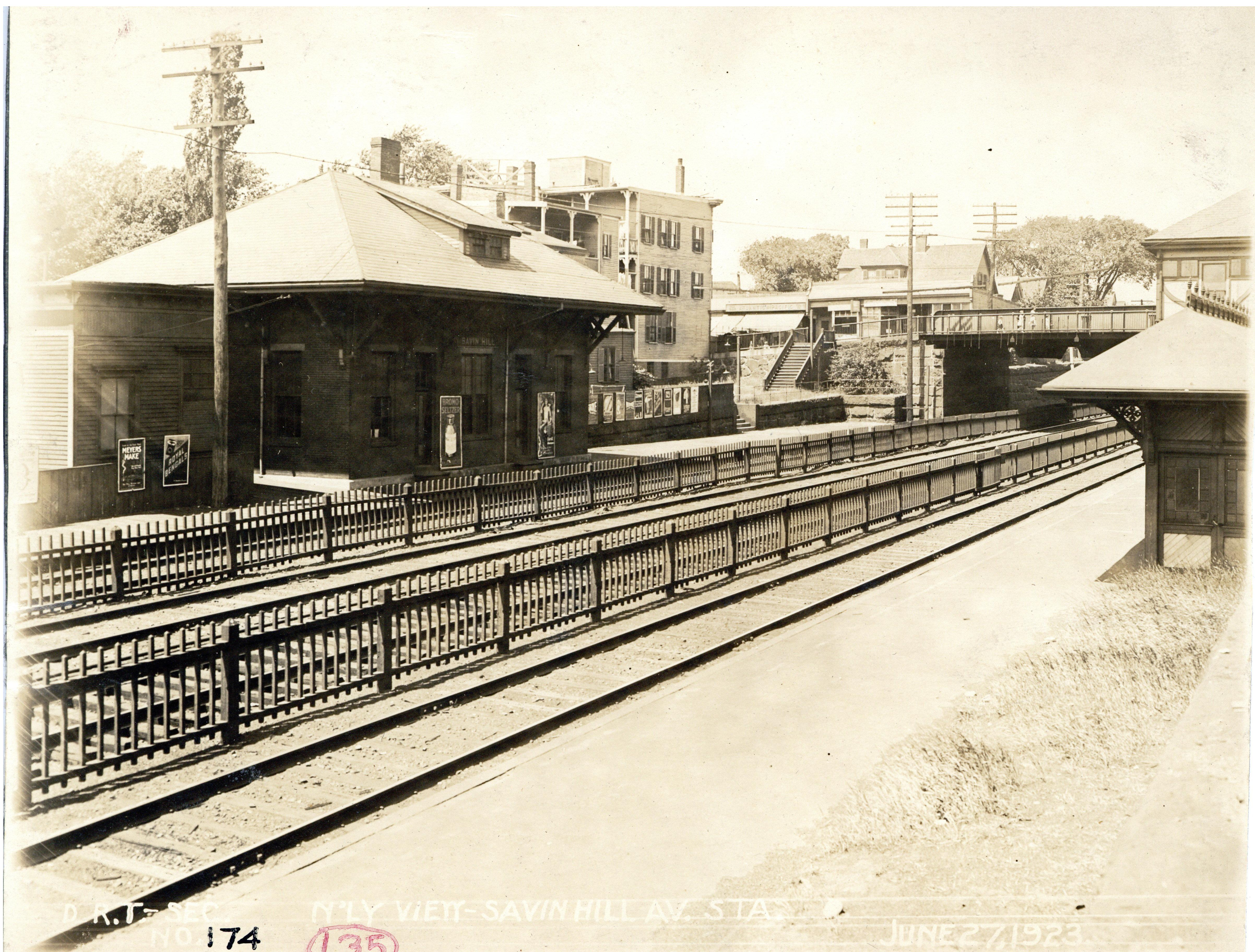 The Old Colony Railroad's Savin Hill Avenue station in 1923, several years before it was replaced by a rapid transit station